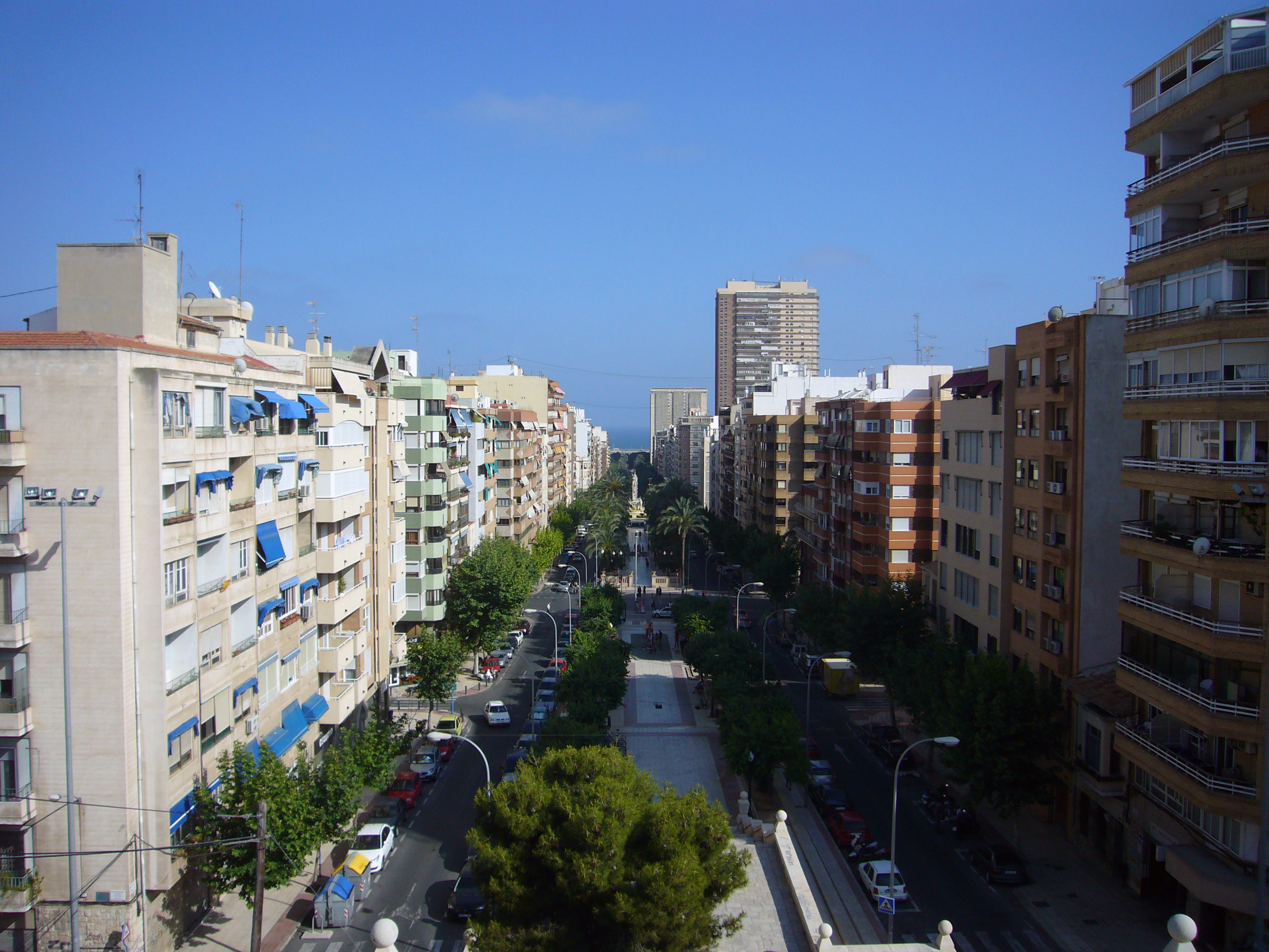 Avenues Marvá-Soto-Gadea in Alicante (Spain)